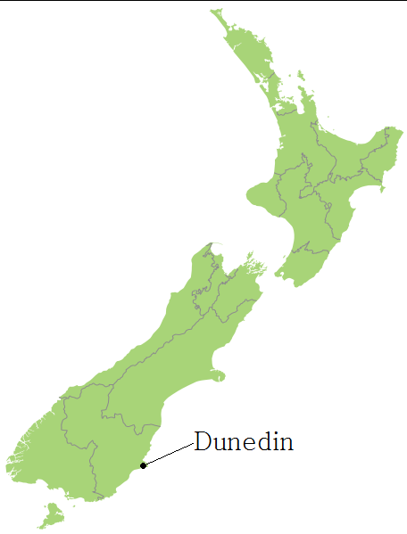 The location of Dunedin in New Zealand.